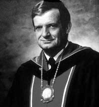 Photograph of Dr. David C. Sabiston, professor of surgery at Duke University